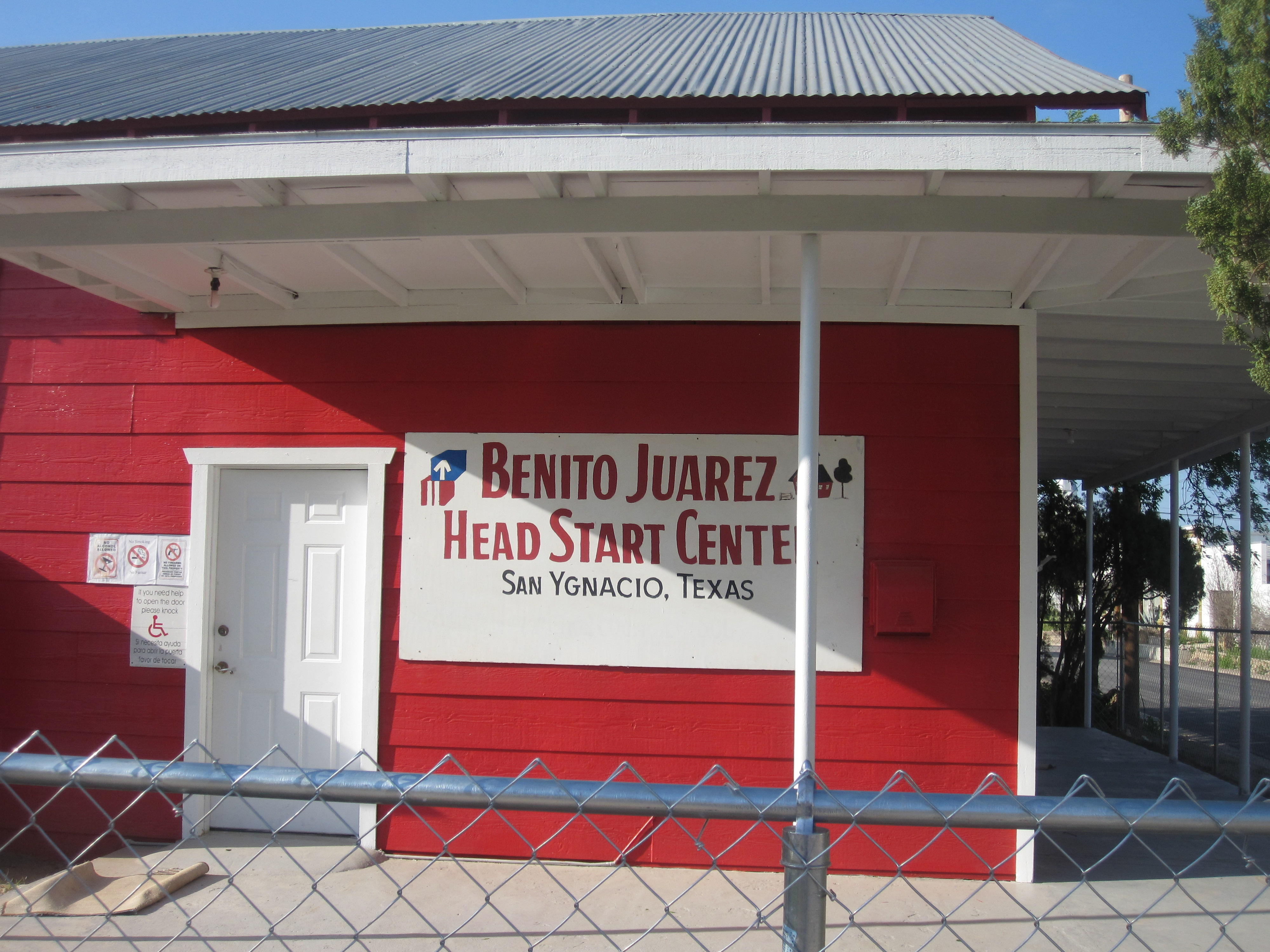 I took picture with Canon camera.